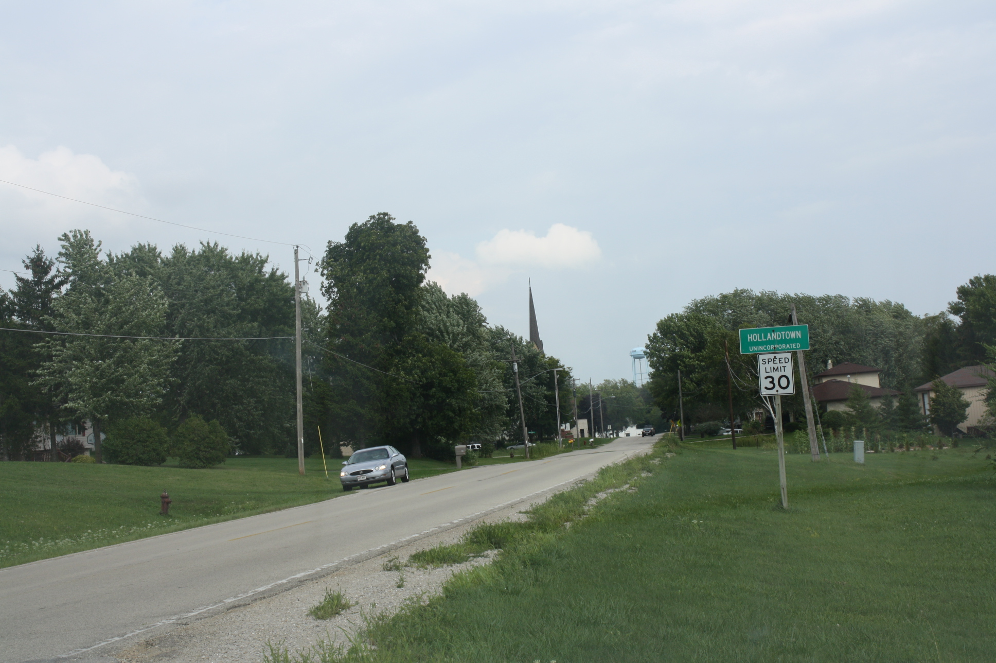 Looking northwest at Hollandtown, Wisconsin.